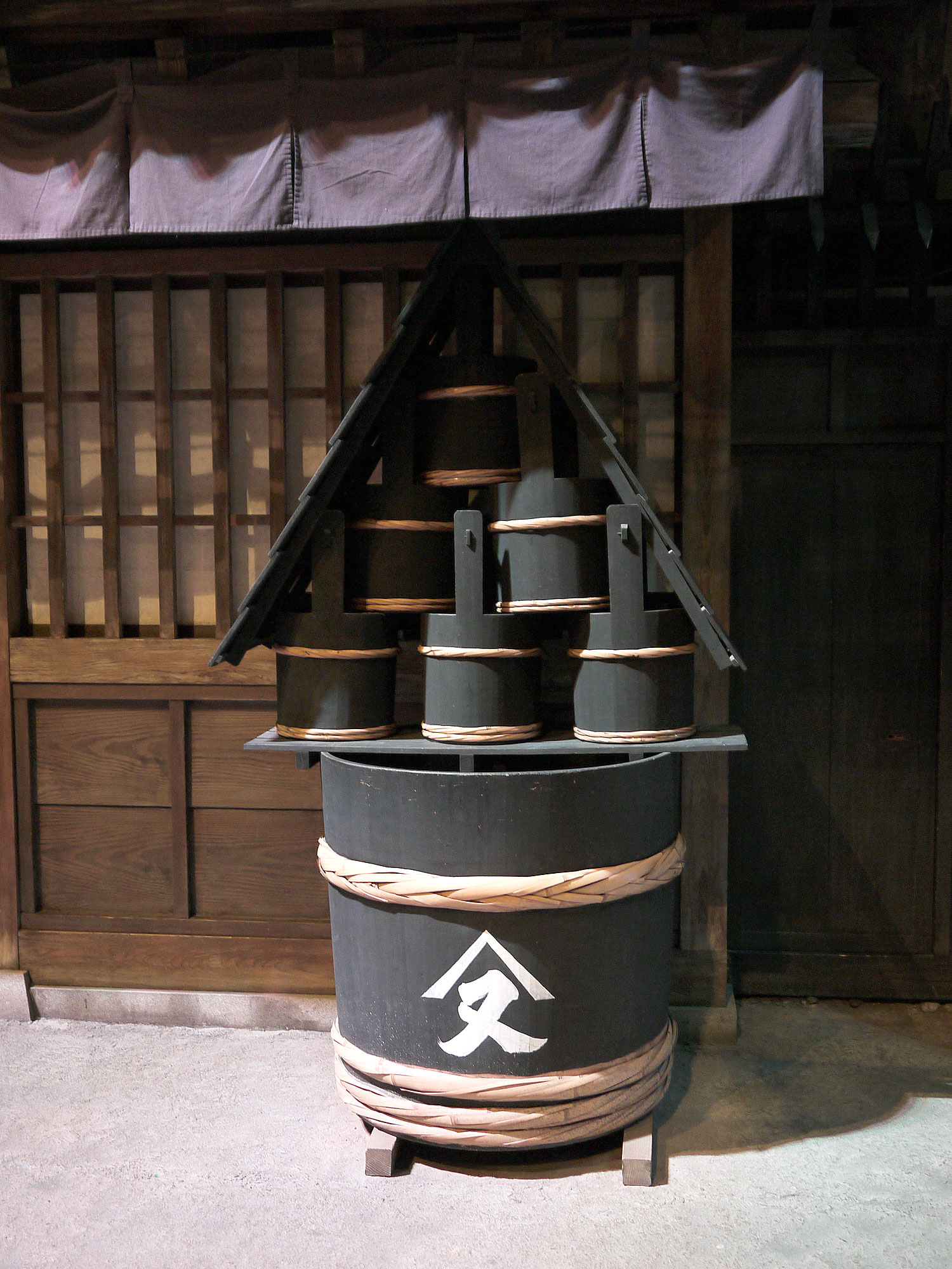 Edo Bousui